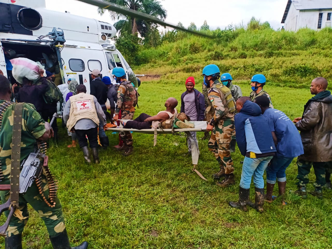 PhotoOfTheDay On 21/7/2020, the Indian contingent of the #MONUSCO evacuated several badly wounded following the inter-armed groups’ clashes in Pinga (#NorthKivu, #DRC) [between NDC-R Guidon and NDC-R Gilbert Bwira Shuo], having caused many victims. The Mission has established a temporary military base in the region. A4P